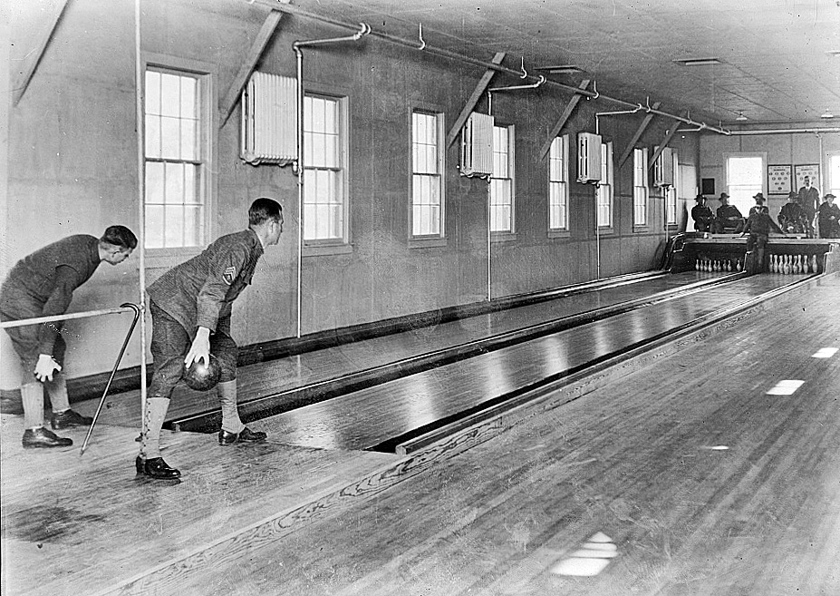 Description from source at Library of Congress ----- Title: Bowling. The location of the ten pins is explained to the blind bowler and one more means of recreation is made possible Date Created/Published: January 1919 [date received] Medium: 1 negative : glass ; 5 x 7 in. Reproduction Number: LC-DIG-anrc-02829 (digital file from original) Rights Advisory: No known restrictions on publication. For information, see "American National Red Cross photograph collection,"( Call Number: LC-A6195- 4247 [P&P] Repository: Library of Congress Prints and Photographs Division Washington, D.C. 20540 USA Notes: -Title, date and notes from Red Cross caption card. -Photographer name or source of original from caption card or negative sleeve: ARC. -Group title: Rehabilitation U.S. -Used in: Credit to R.C. Mag. March 1st. Mag. Bureau. 3/1/1919. Atlantic Div. 3/1/1919. -Gift; American National Red Cross 1944 and 1952. -General information about the American National Red Cross photograph collection is available at -Temp note: Batch 7 Subjects: -American Red Cross. -United States. Format: Glass negatives. Part of: American National Red Cross photograph collection (Library of Congress) Bookmark This Record: The Library of Congress website also states: "There are no known restrictions on photographs taken by staff of the American National Red Cross. ... Copyright: The American National Red Cross Collection includes negatives and prints made by the staff of the organization, as well as materials collected by them, dating ca. 1880s-1950. The American National Red Cross gave the collection to the Library of Congress in 1944, placing no restrictions on their use." Archive